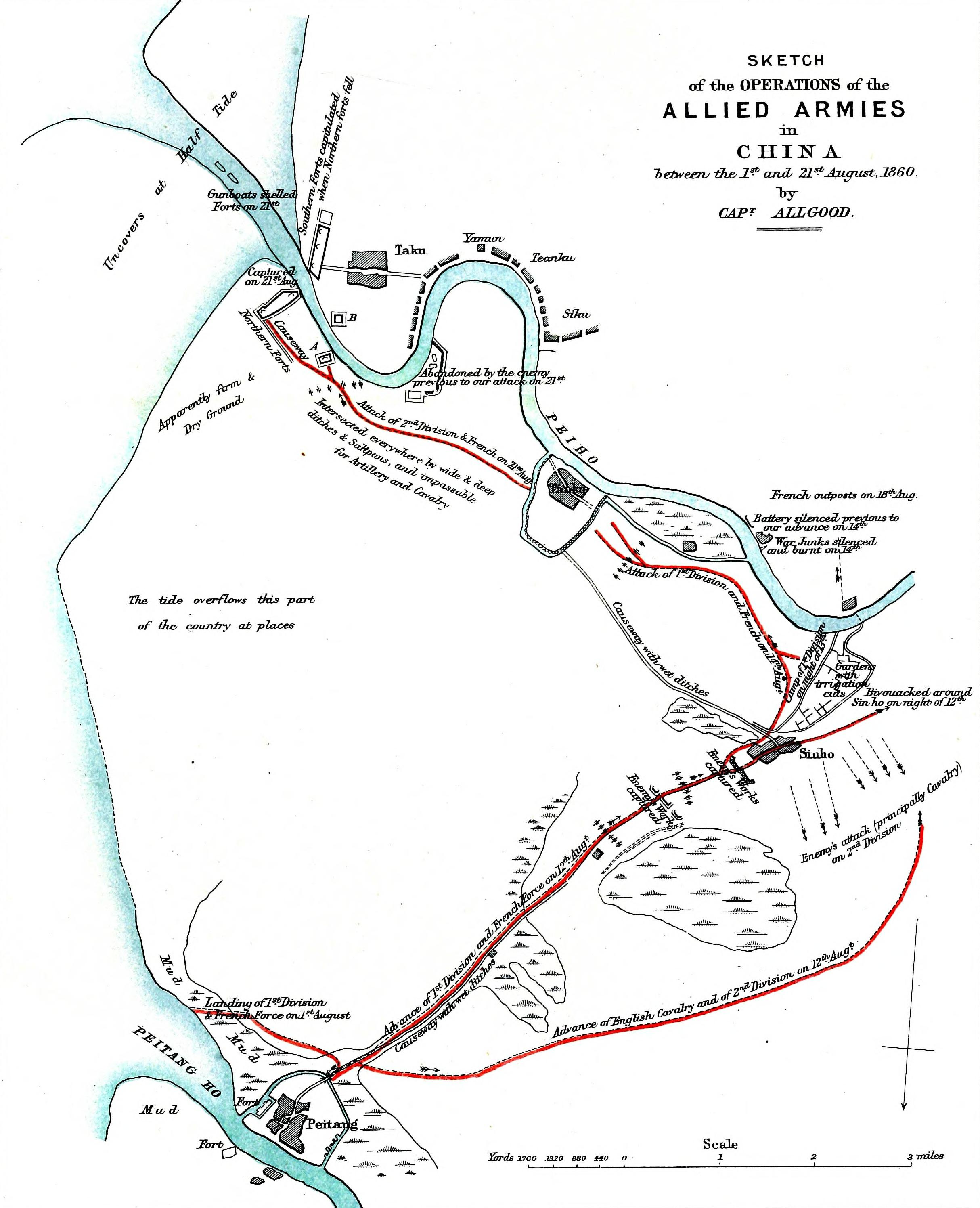 Sketch of the operations of the allied armies around Taku Forts in China between the 1st and 21st August, 1860.